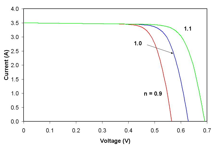 Solar cell I-V curve as a function of ideality factor.